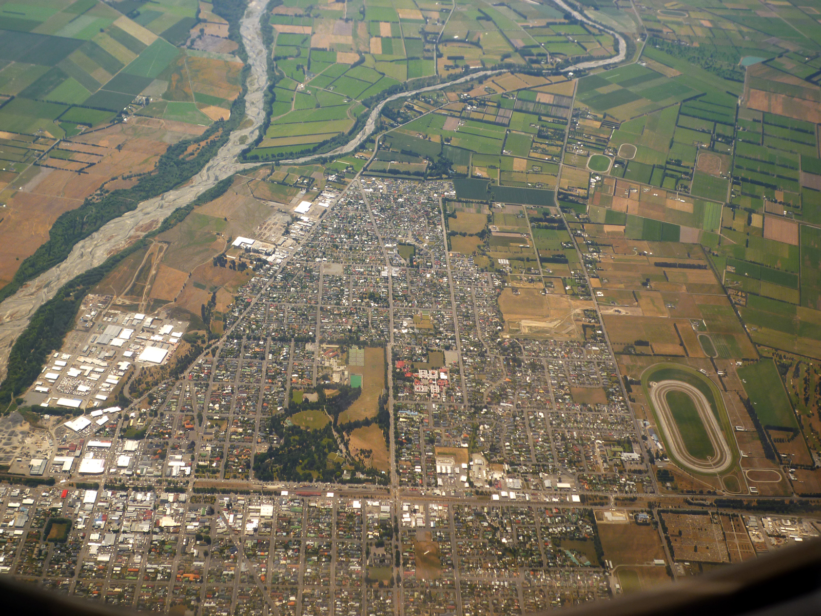 Aerial view of Ashburton, Canterbury, South Island, New Zealand, looking west. The Ashburton River or Hakatere is visible at left.